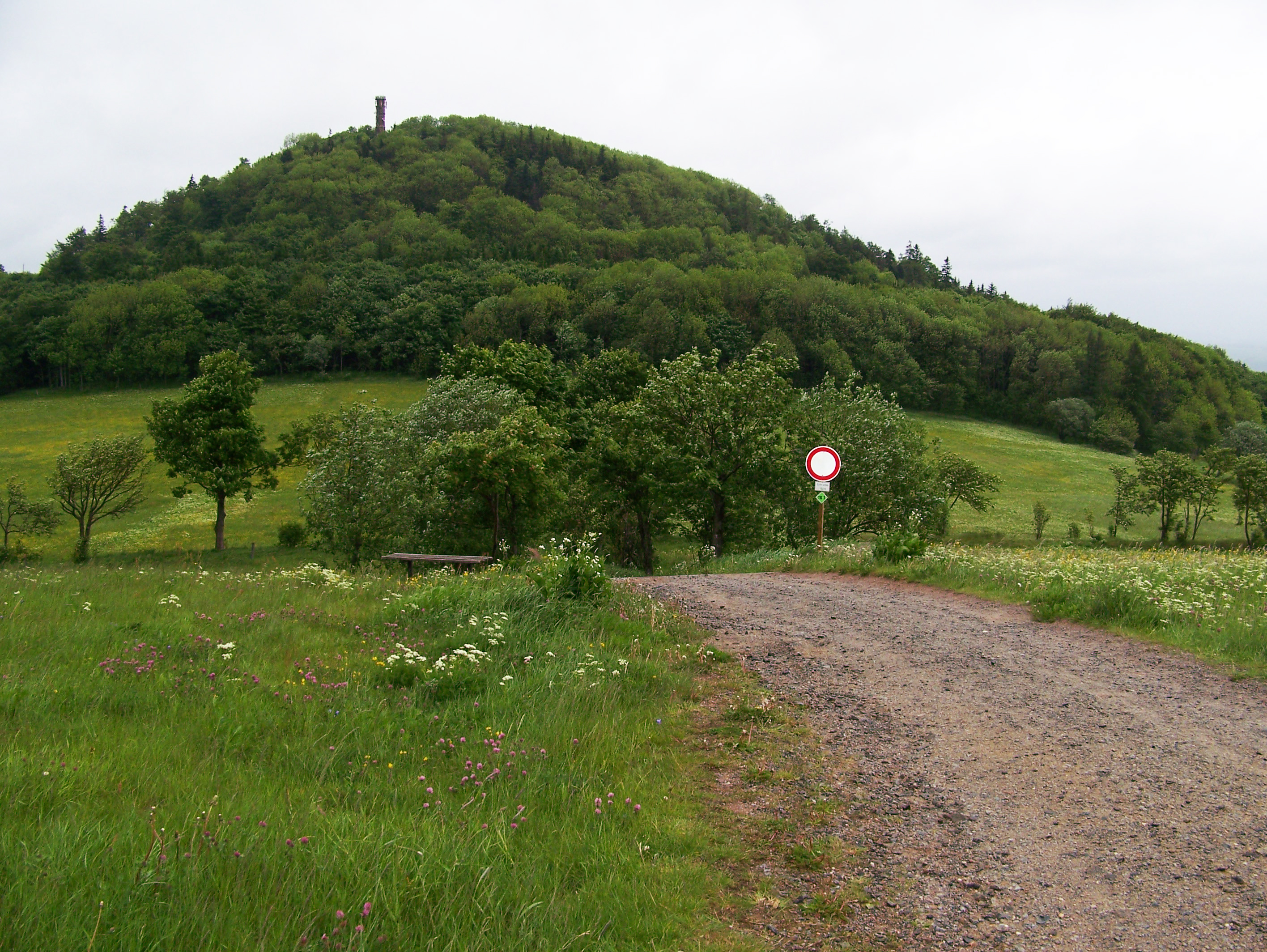 Geisingberg summit with the tower Louisenturm